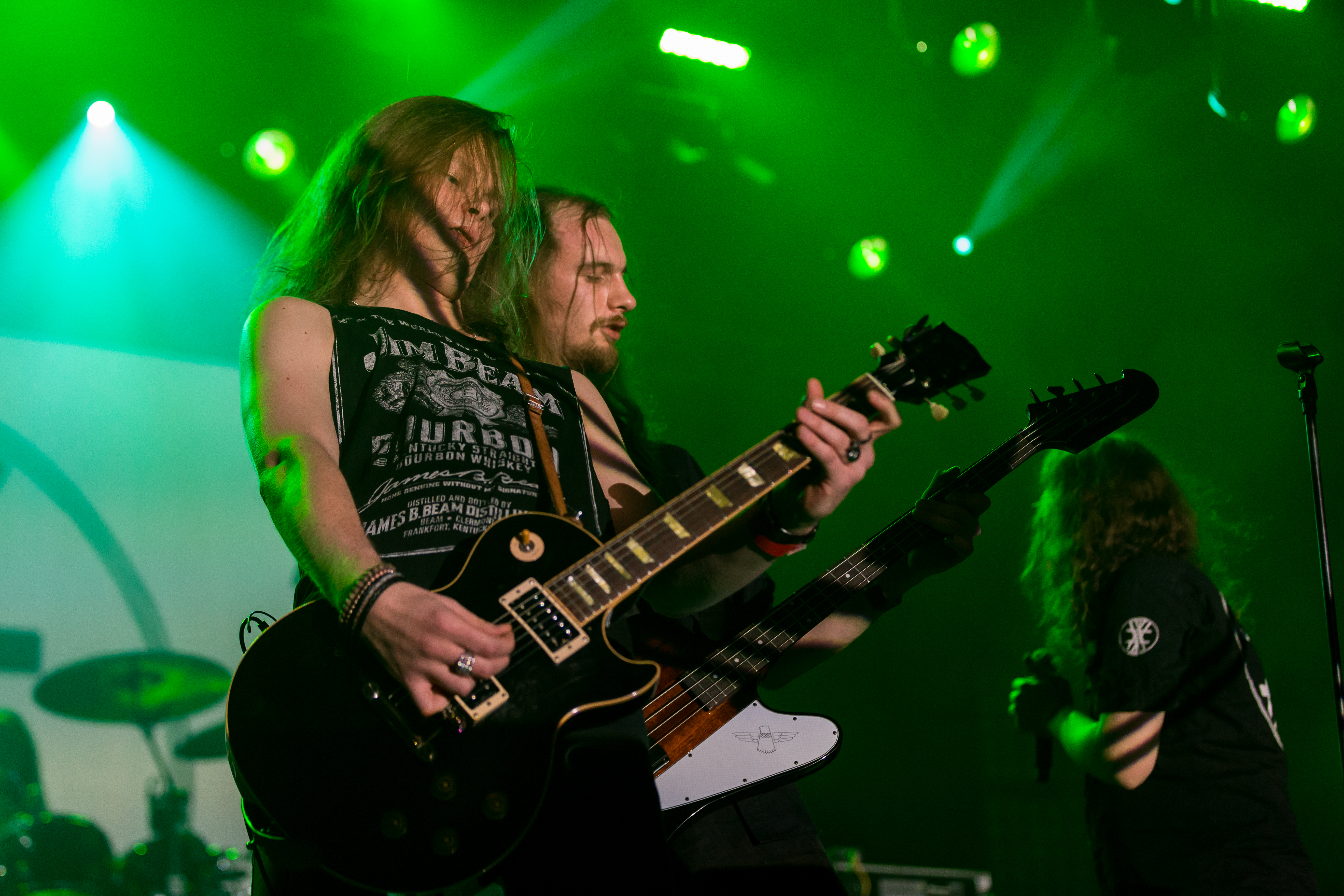 The Norwegian progressive metal band In the Woods at the Wave-Gotik-Treffen 2017 in Leipzig/Germany (Venue Kohlrabizirkus).